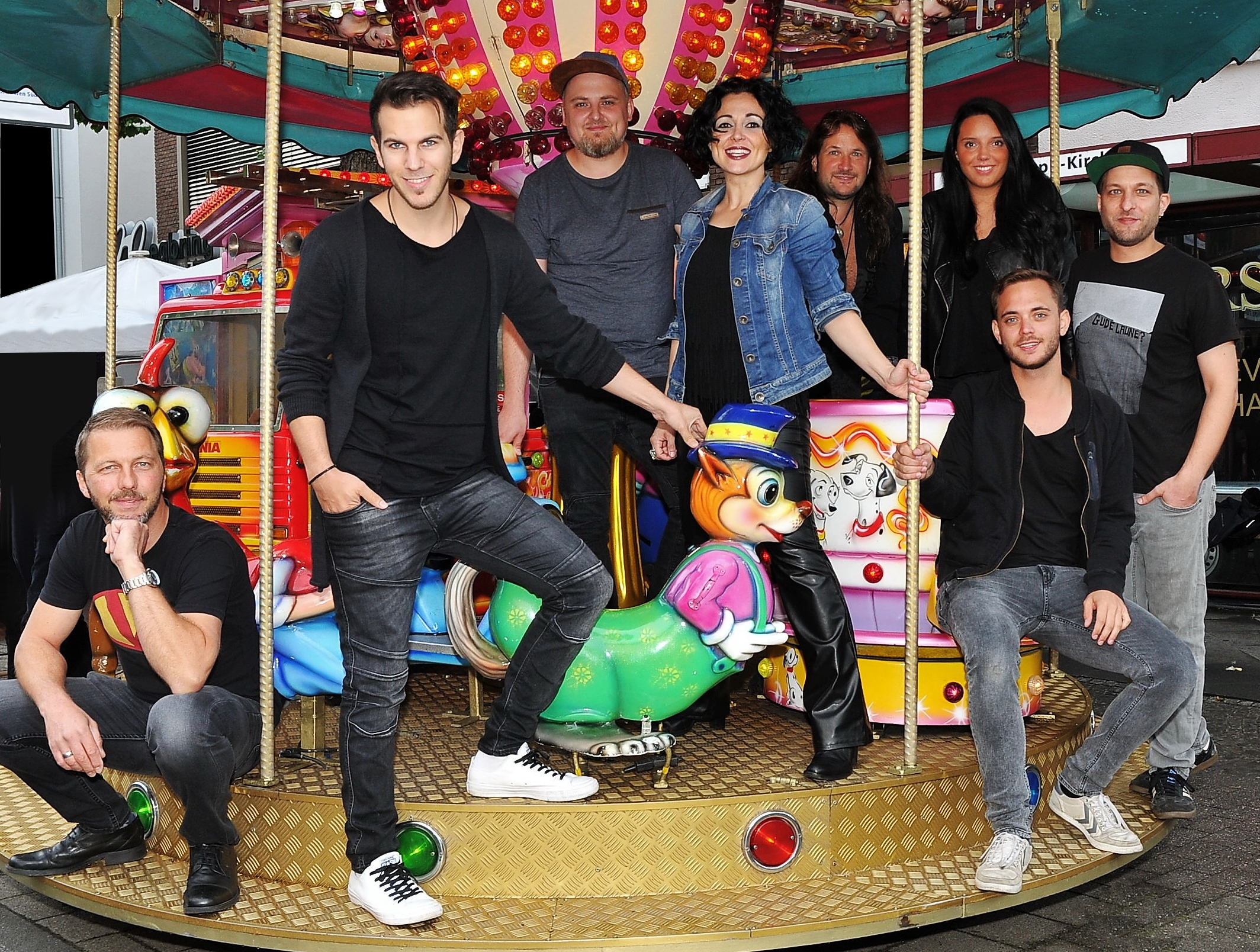 Sylvia Gonzalez Bolivar with her band GROOVE Delighters during a concert in Münster (Germany) for the radio station Antenne Münster in July 2017 / R. Widera.